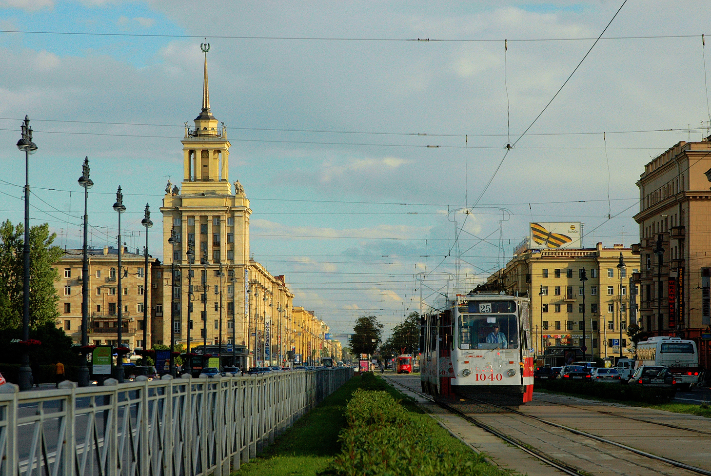 Moskovsky Prospekt near Moskovsky Victory Park